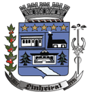 Pinheiral municipalty coat of arms